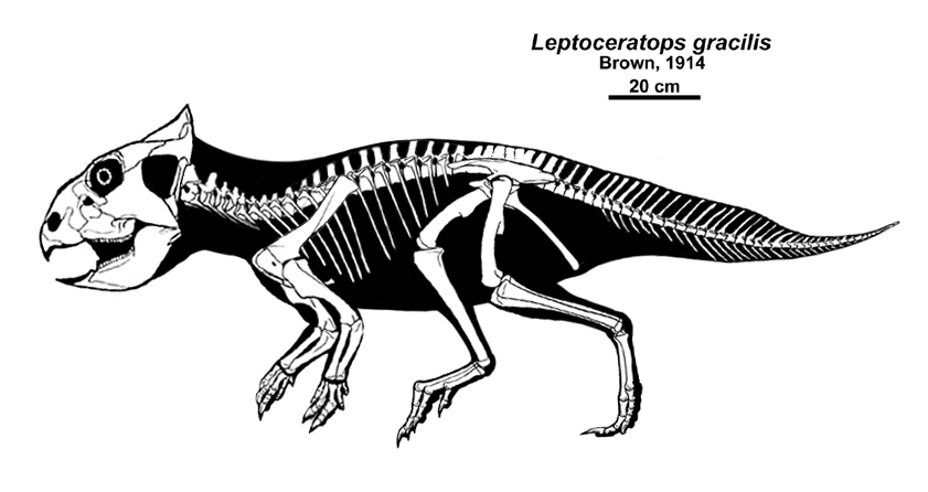 Skeletal reconstruction of Leptoceratops gracilis.